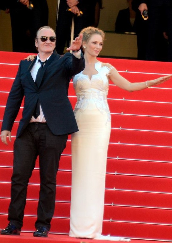 Quentin Tarantino and Uma Thurman at the Cannes Film festival, for the 20th anniversary of "Pulp fiction"